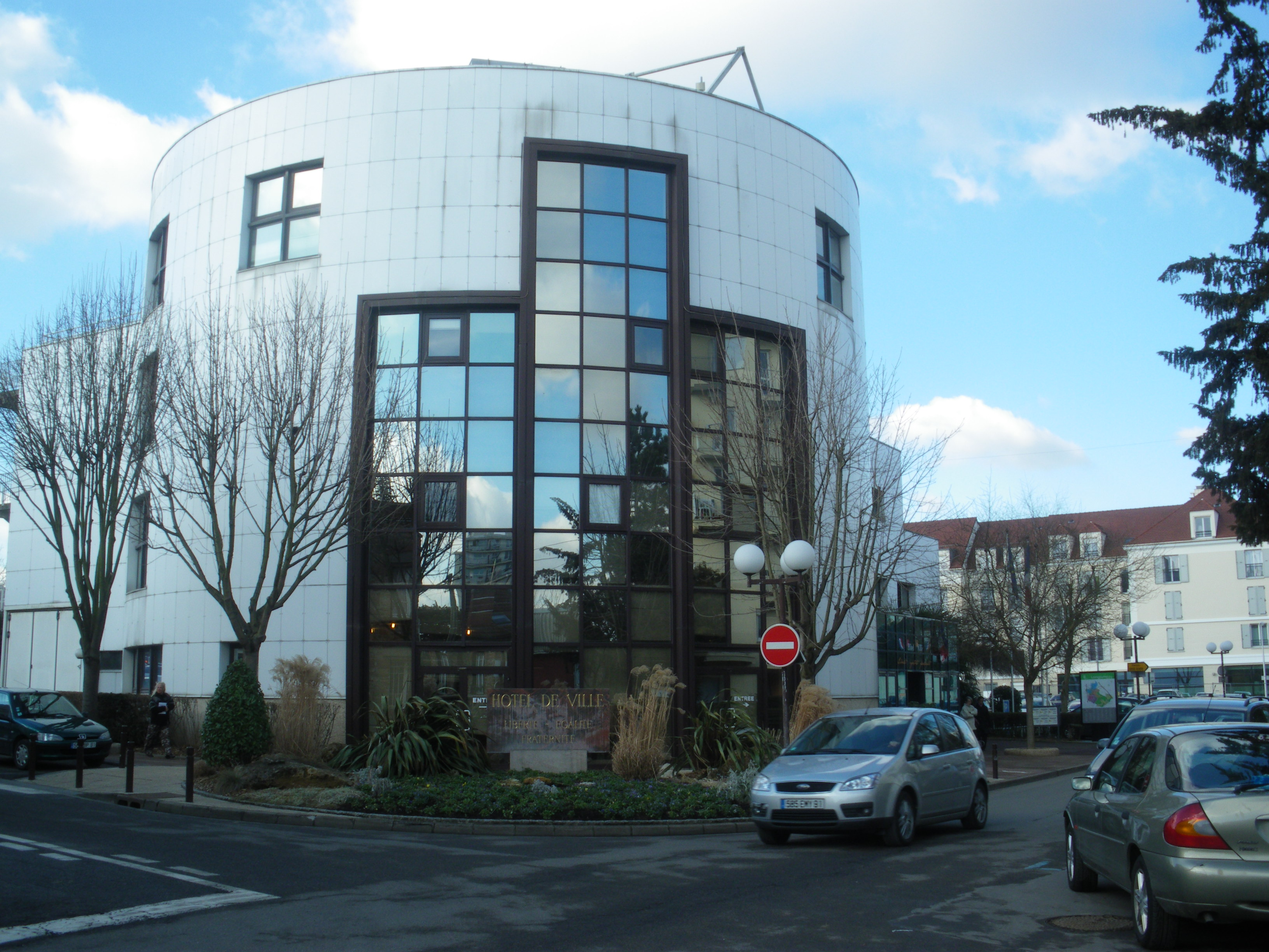 Town Hall in Longjumeau, Essonne, France